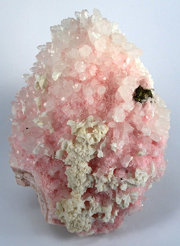 Kutnohorite, Chalcopyrite, Quartz, Rhodochrosite Locality: Cavnic (Kapnic; Kapnik), Maramures County, Romania (Locality at ) Size: 10.9 x 7.3 x 4.2 cm. A matrix of beautiful, massive pink rhodochrosite is the pincushion for a host of gemmy, colorless quartz crystals, to .8 cm in length. On top of the quartz crystals is a coating of off white kutnohorite along with a few crystals of splendent, brassy chalcopyrite, to .75 cm across. Ex. Harold Urish Collection.